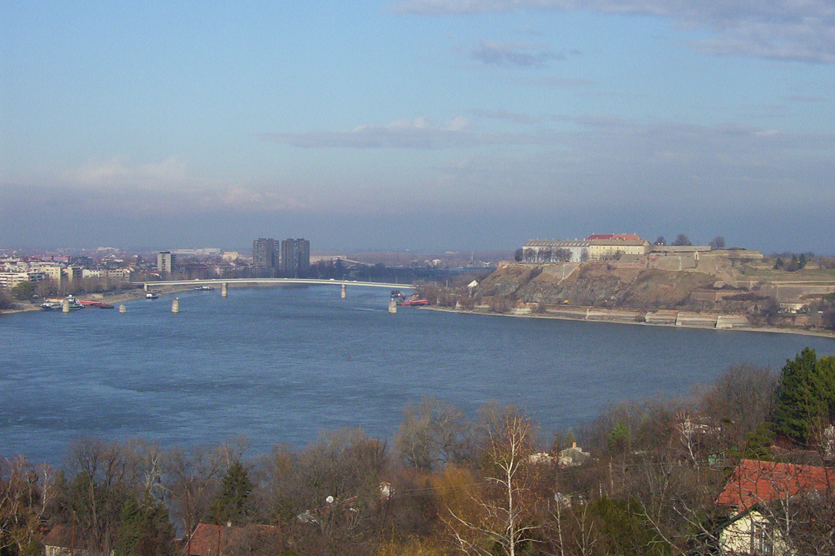 View of Novi Sad and Petrovaradin fotress